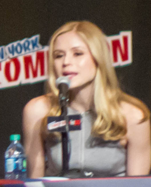 Panel for Jessica Jones at the 2015 New York Comic Con. (L:R: Krysten Ritter, Mike Colter, Rachael Taylor, Carrie-Ann Moss, Wil Traval, Eka Darville, Erin Moriarty)